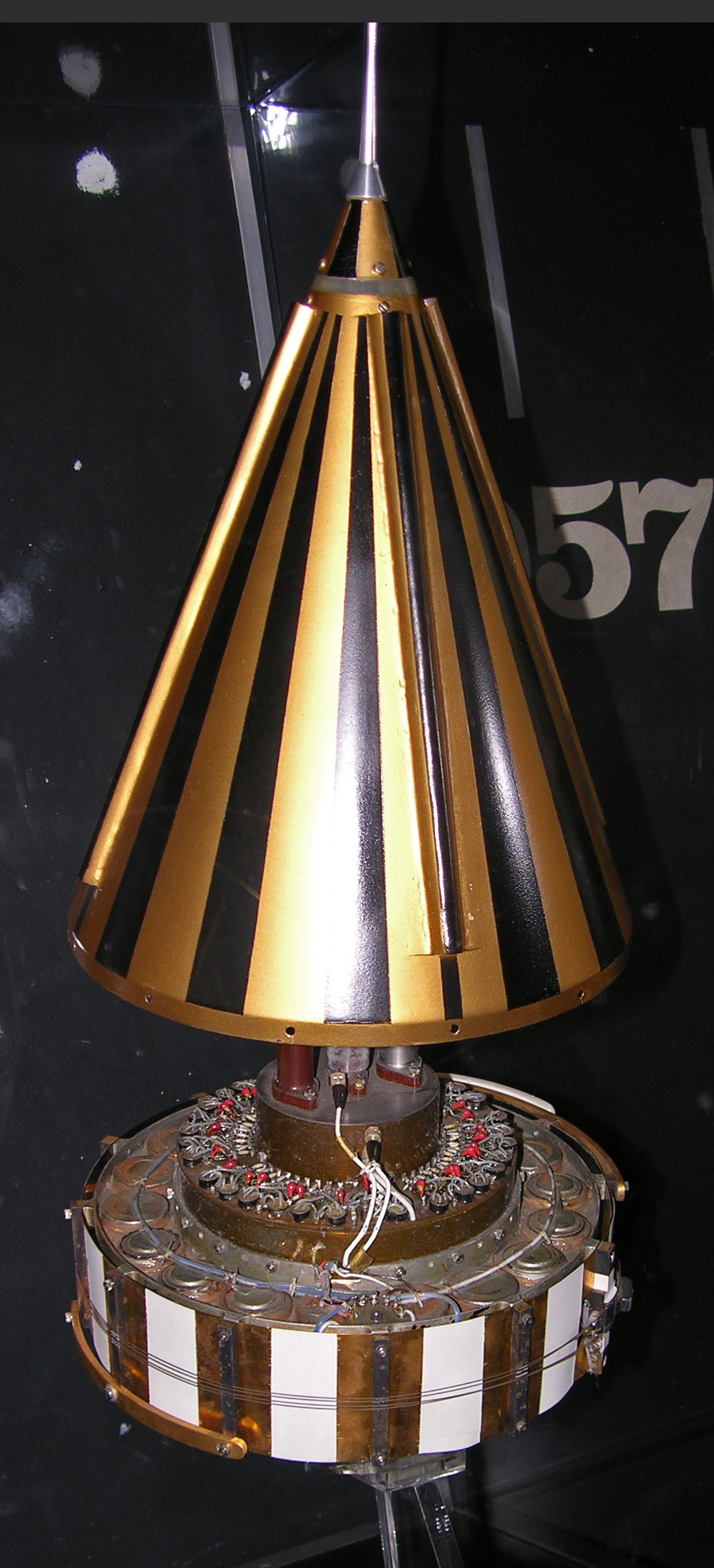 Pioneer 4 backup probe